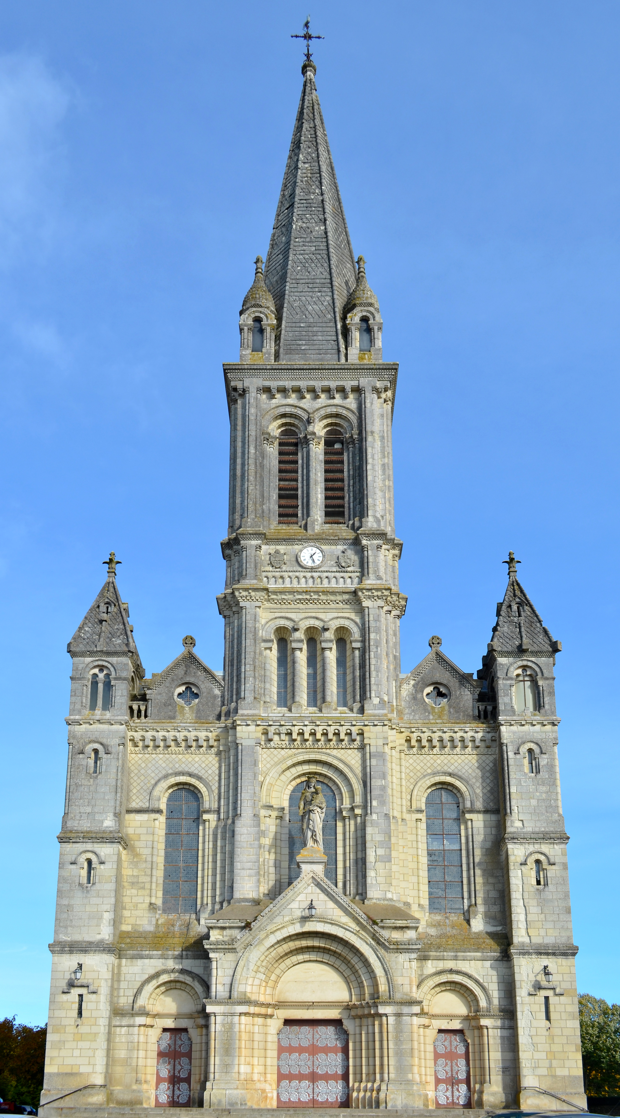 Notre-Dame la Neuve church, Chemillé, France